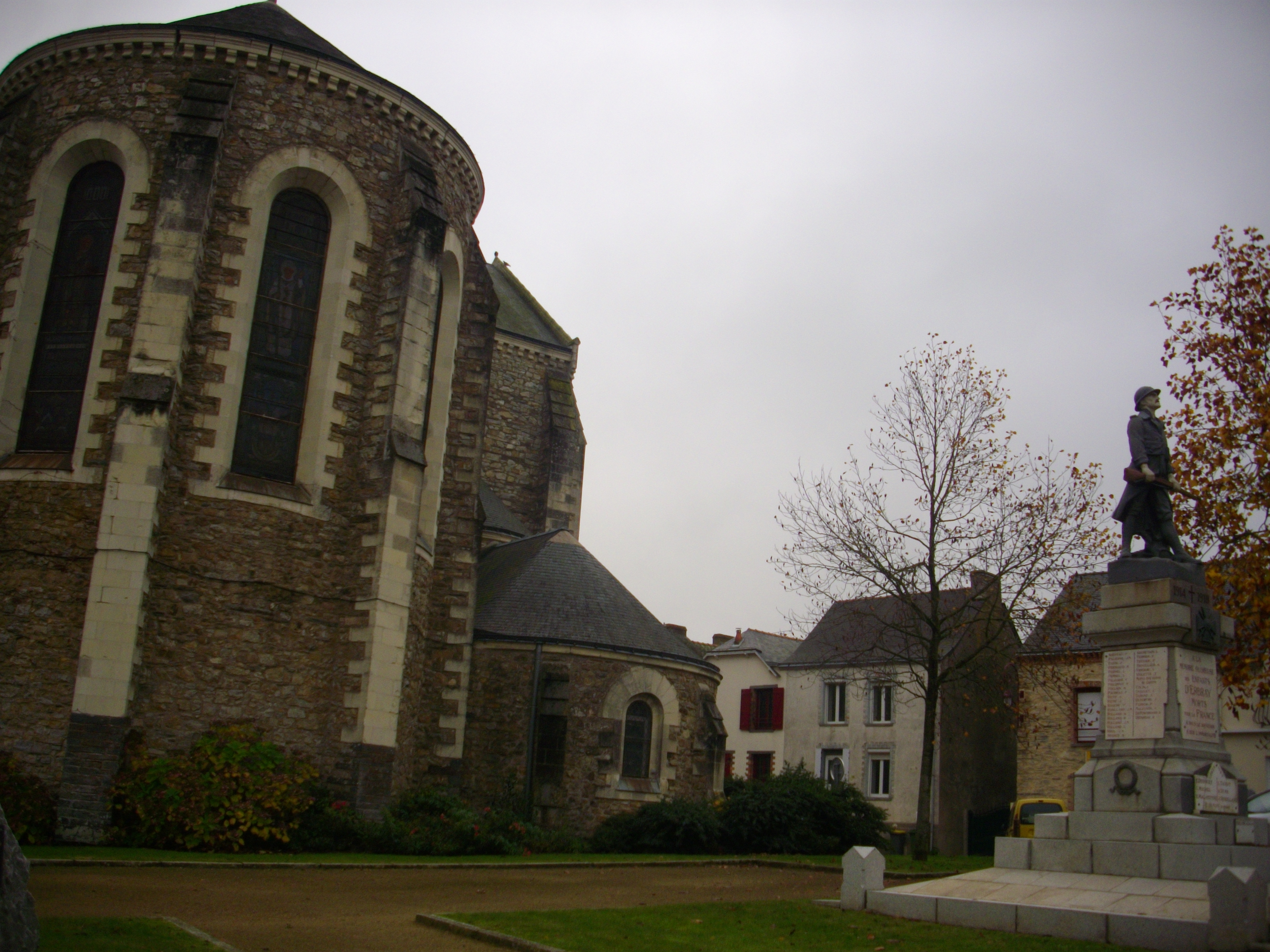 Apse of Saint Martin church and war memorial of Erbray (Loire-Atlantique, France)